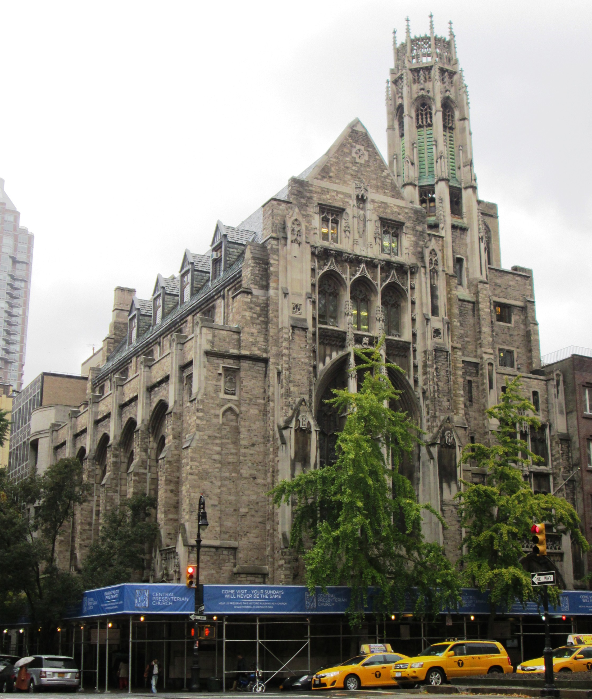 The Central Presbyterian Church at 593 Park Avenue at East 64th Street in the Lenox Hill neighborhood of Manhattan, New York City was built in 1920-22 as the Park Avenue Baptist Church, and was designed by Henry C. Pelton and Allen & Collens in the Collegiate Gothic Revival style. The church, sometimes called the Little Cathedral, was financed by John D. Rockefeller Jr.. The Baptist congregation left in 1929 for Riverside Church, designed by the same architects. The Presbyterian congregation was founded in 1821. The single facade covers a complex of structures, including the church, a Sunday School, a 500 seat auditorium and offices. The church is located in the Upper East Side Historic District. (Sources: From Abyssinian to Zion (2004) and Guide to NYC Landmarks (4th 4d.))